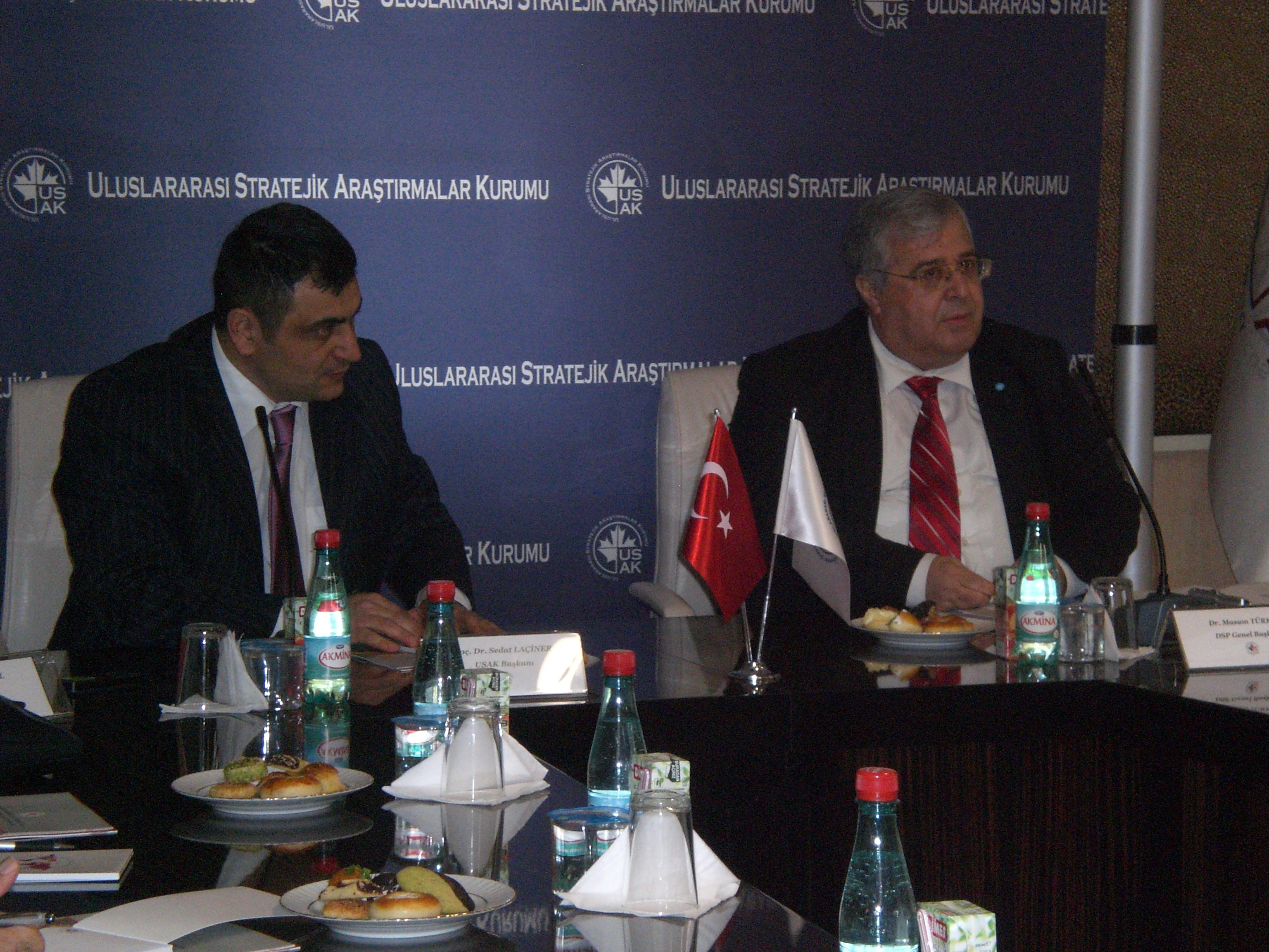 Masum Turker, President of the Democratic Left Party (DSP) at the USAK (International Strategic Research Organization), 15 February 2010